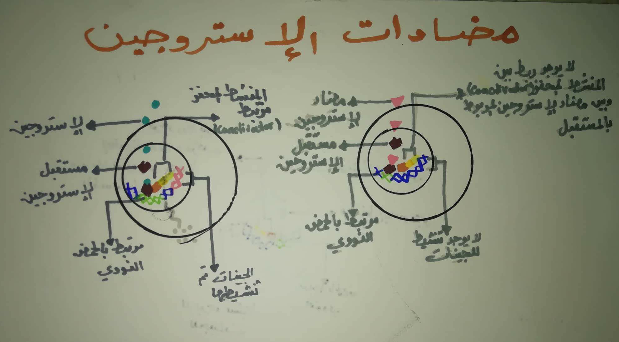 توضيح لطريقة عمل مضاد الاستروجين(التاموكسفين) مع مستقبل الاستروجين مقابل عمل الاستروجين مع مستقبله